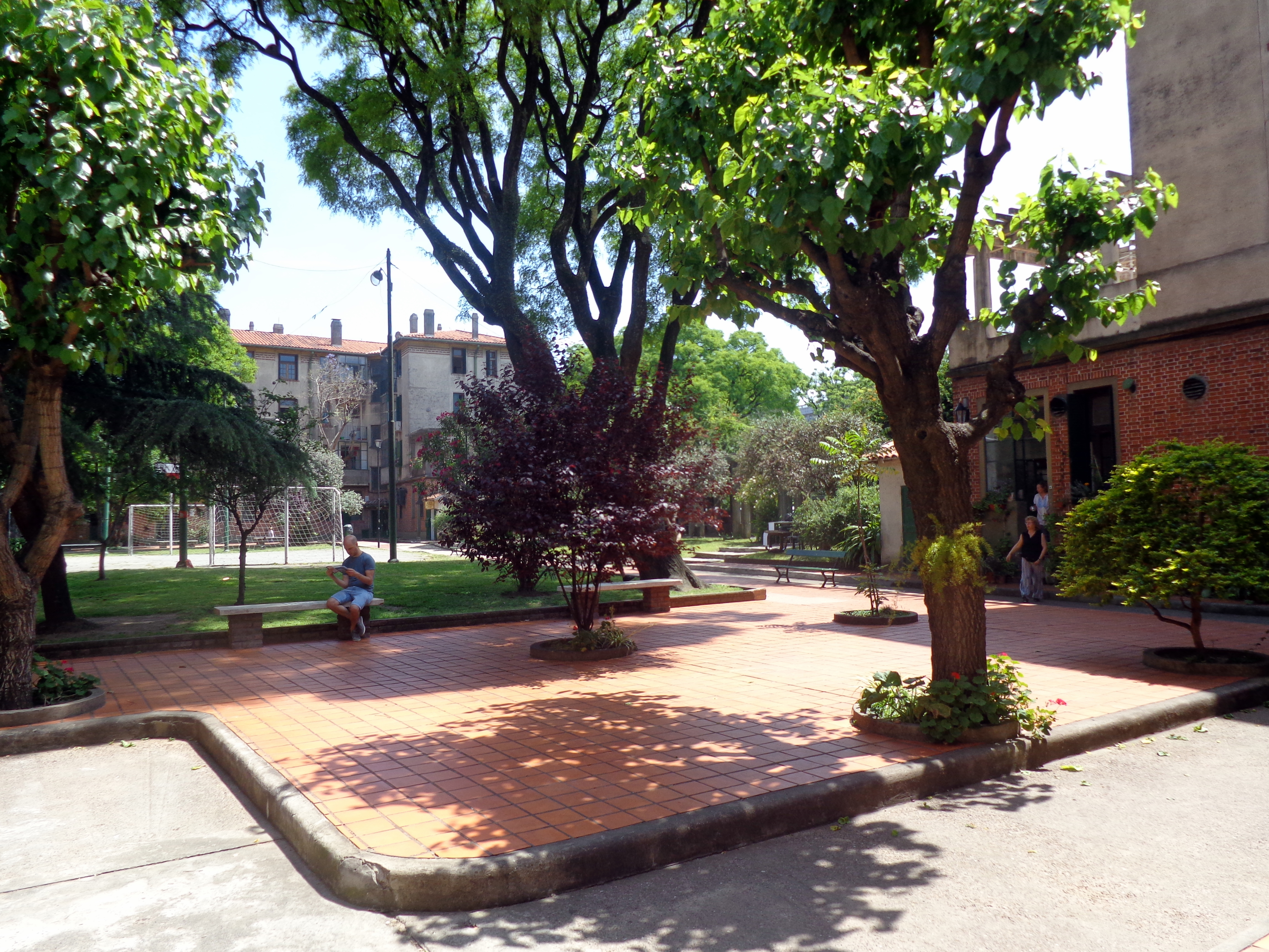 Parque Los Andes House Collective, a micro neighborhood built by the City of Buenos Aires between 1926 and 1928 in Chacarita, Buenos Aires, Argentina.